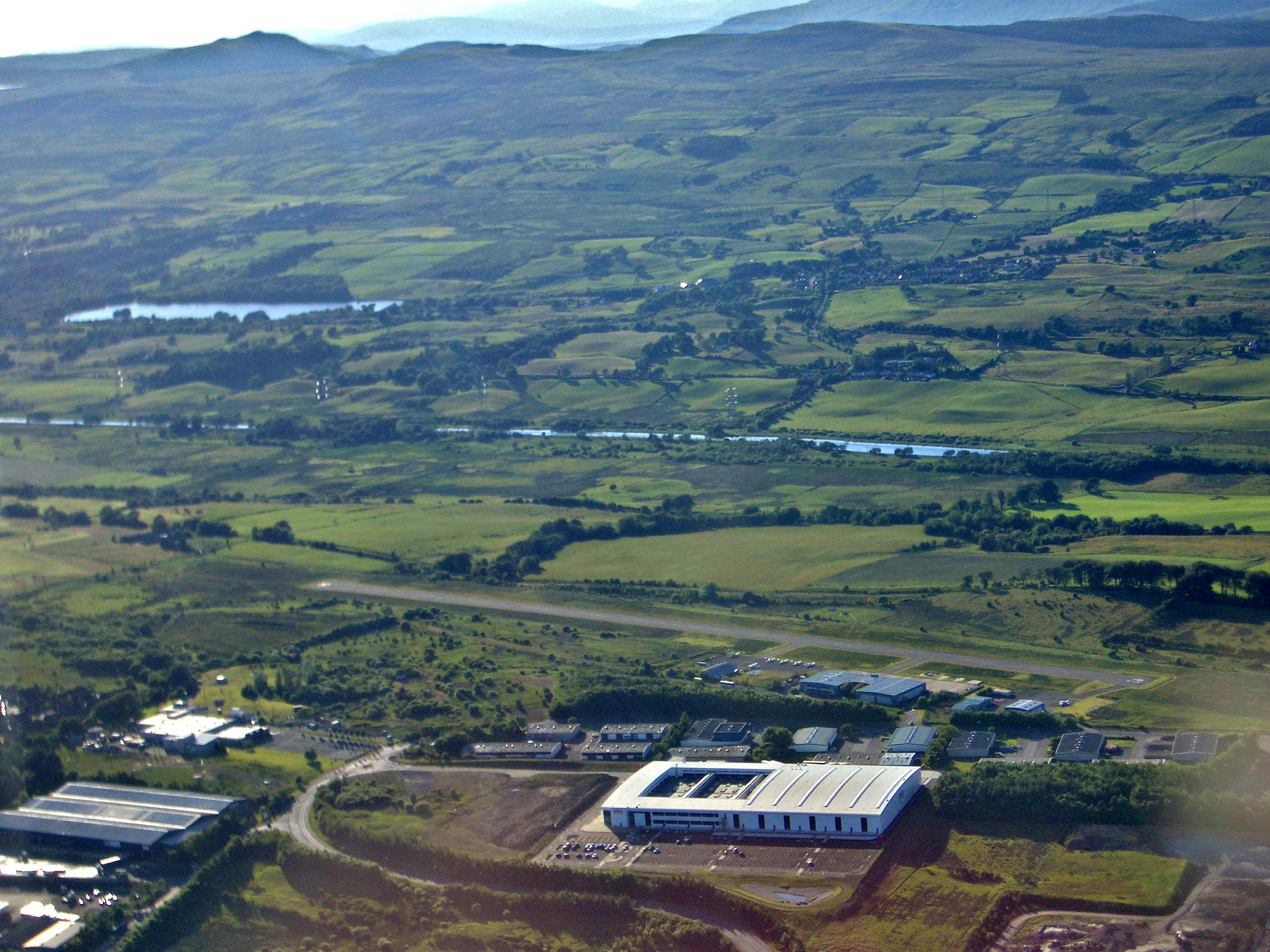 Aerial shot of Cumbernauld Airport and the OKI factory. (Note: The large white building is the OKI UK factory. The main airport building is the "Short-U-shaped" one lying parallel to the runway strip one-third of the way up.)